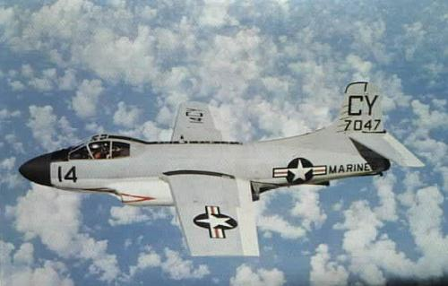 A Douglas EF-10B Skyknight (BuNo 127047) of Marine Composite reconnaissance Squadron 2 (VMCJ-2) "Playboys" in flight, circa in the 1960s. VMCJ-2 was commissioned on 1 December 1955 and began to fly electronic warfare missions off North Korea, China and the Soviet Union immediatley. In 1965 VMCJ-2 was deployed to Da Nang in South Vietnam with six aircraft. The Skyknights flew over 9000 sorties and lost five aircraft and twelve crewmembers. They were withdrawn from Da Nang in October 1969 and officially retired at MCAS El Toro (California, USA) on 31 May 1970.